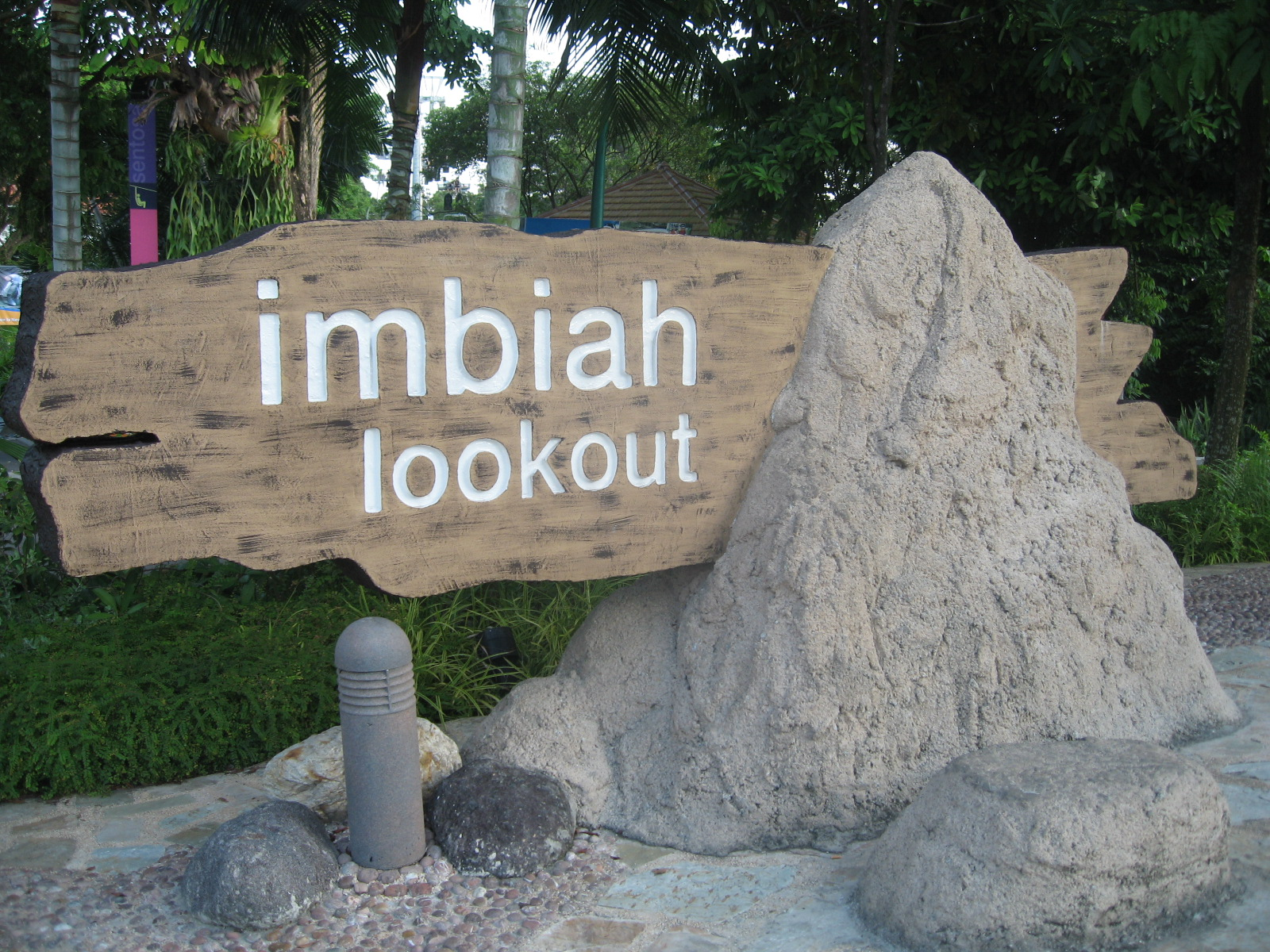 The Imbiah Lookout entertainment zone entrance sign (2006). Located on Sentosa Island, in Singapore. Demolished and remodeled in 2007 for an expanded new resort. Taken by Terence Ong in July 2006.